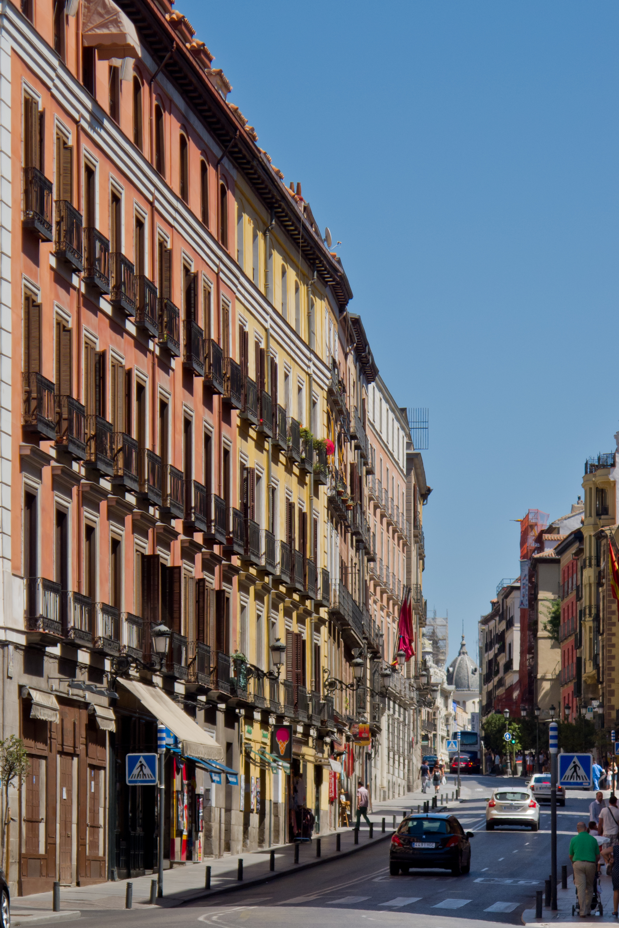 Calle Mayor, Madrid, Spain, seen from the Palace of the Councils, near the end of the street. The dome at the end is the building on Calle Mayor with Travesía del Arenal, almost at the beginning of the street.